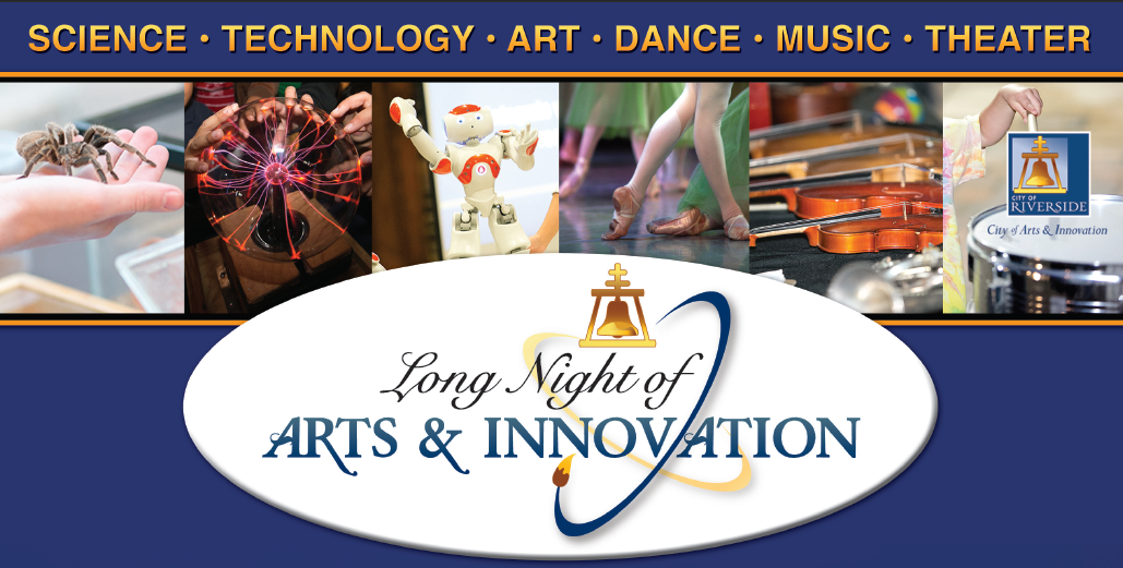 Logo & pictures from the event